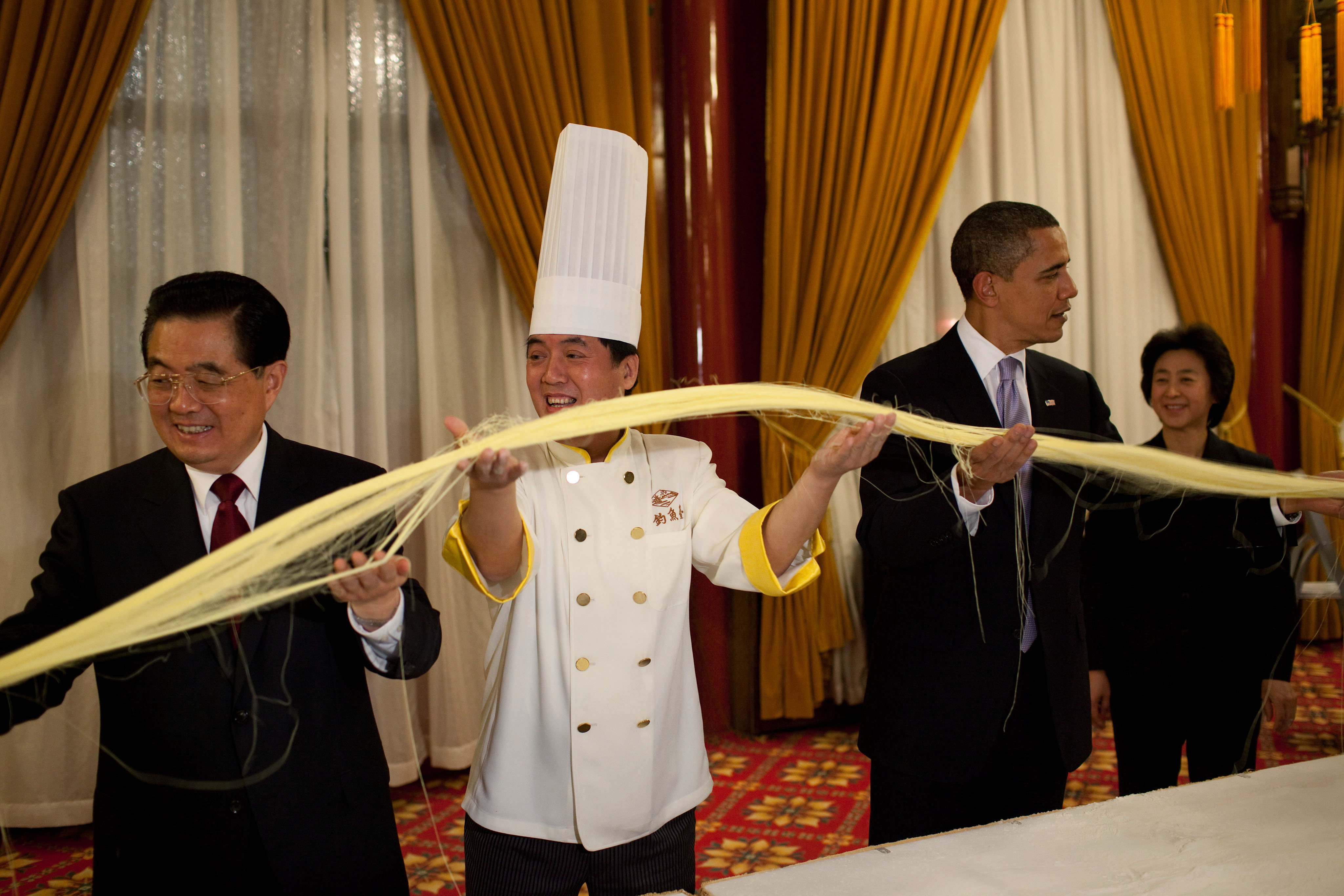 President Barack Obama participates in a noodle-making demonstration with Chinese President Hu Jintao, left, while attending a dinner at the Diaoyutai State Guest House in Beijing, China, Nov. 16, 2009